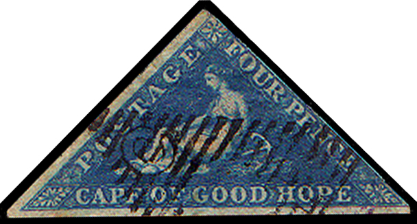 Cape of Good Hope Triangular Postage four pence Stamp